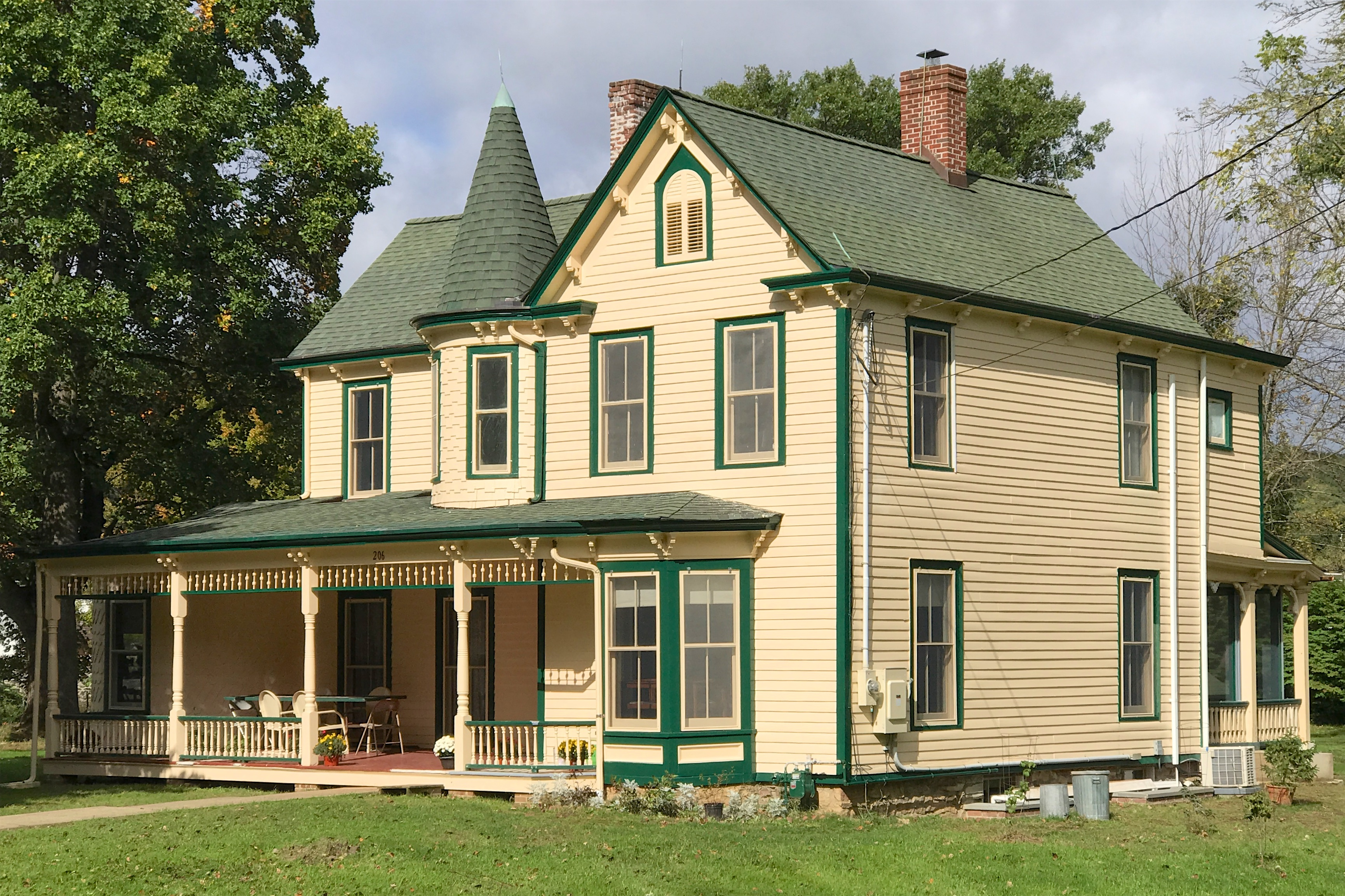 The King Homestead in Ledgewood, New Jersey. Built circa 1878 date QS:P,+1878-00-00T00:00:00Z/9,P1480,Q5727902. Also contributing property #1A of the Ledgewood Historic District.